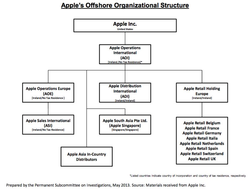 2013 US Senate investigation into Apple's offshore tax structure in Ireland, and Apple Sales International